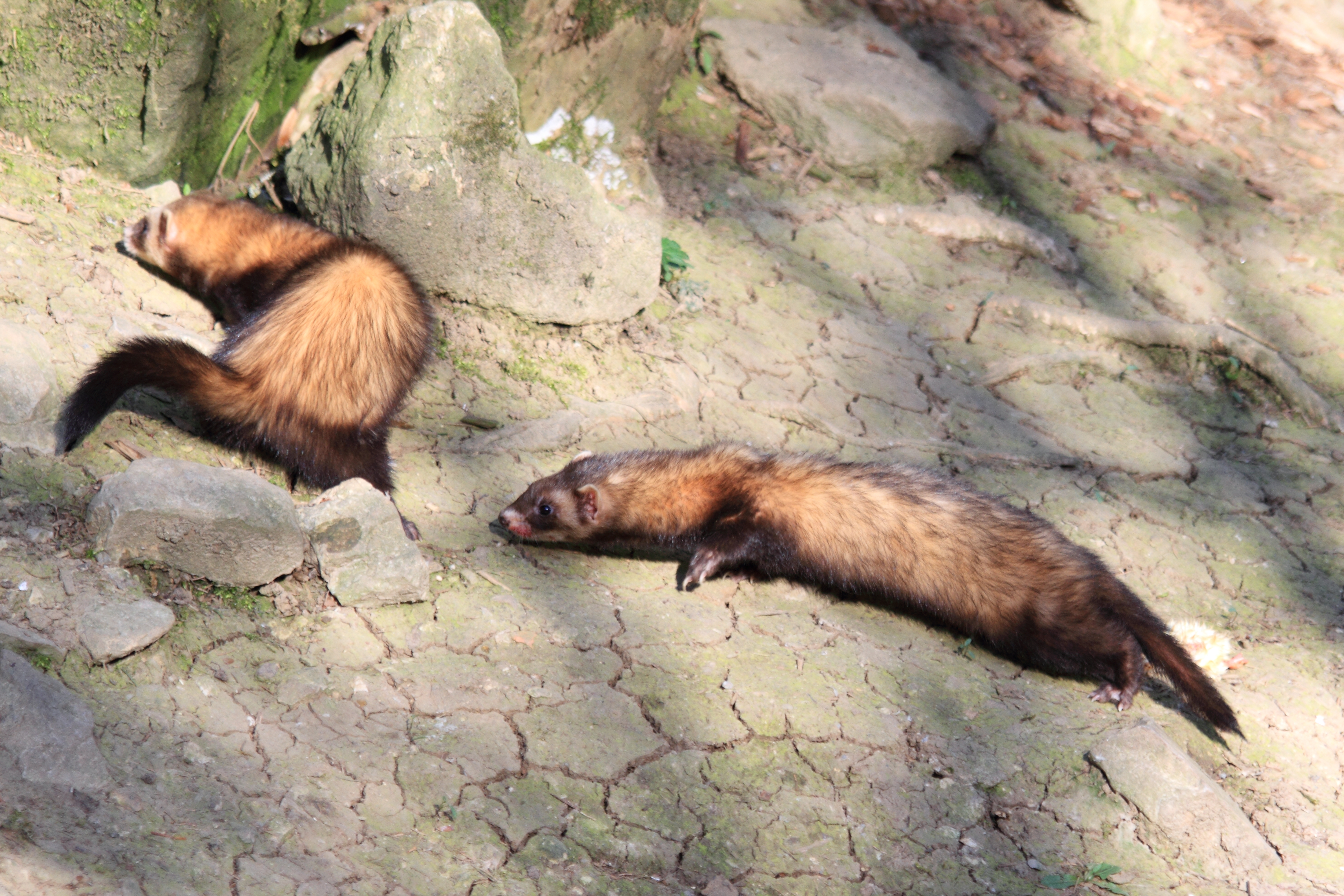 Two ferrets hunting. Seen at Wildpak Bad Mergentheim.